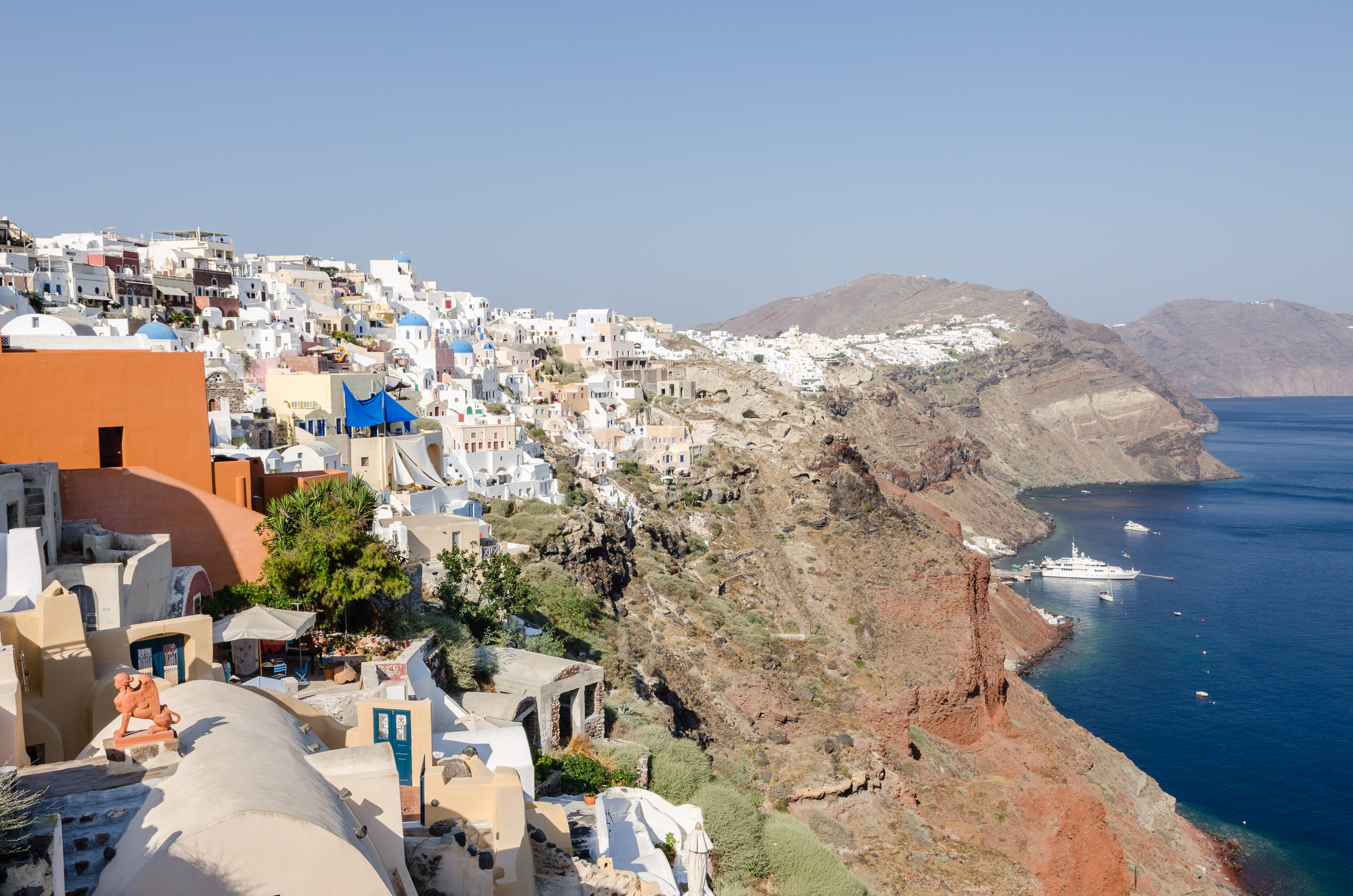 Oia, Santorini, Greece.